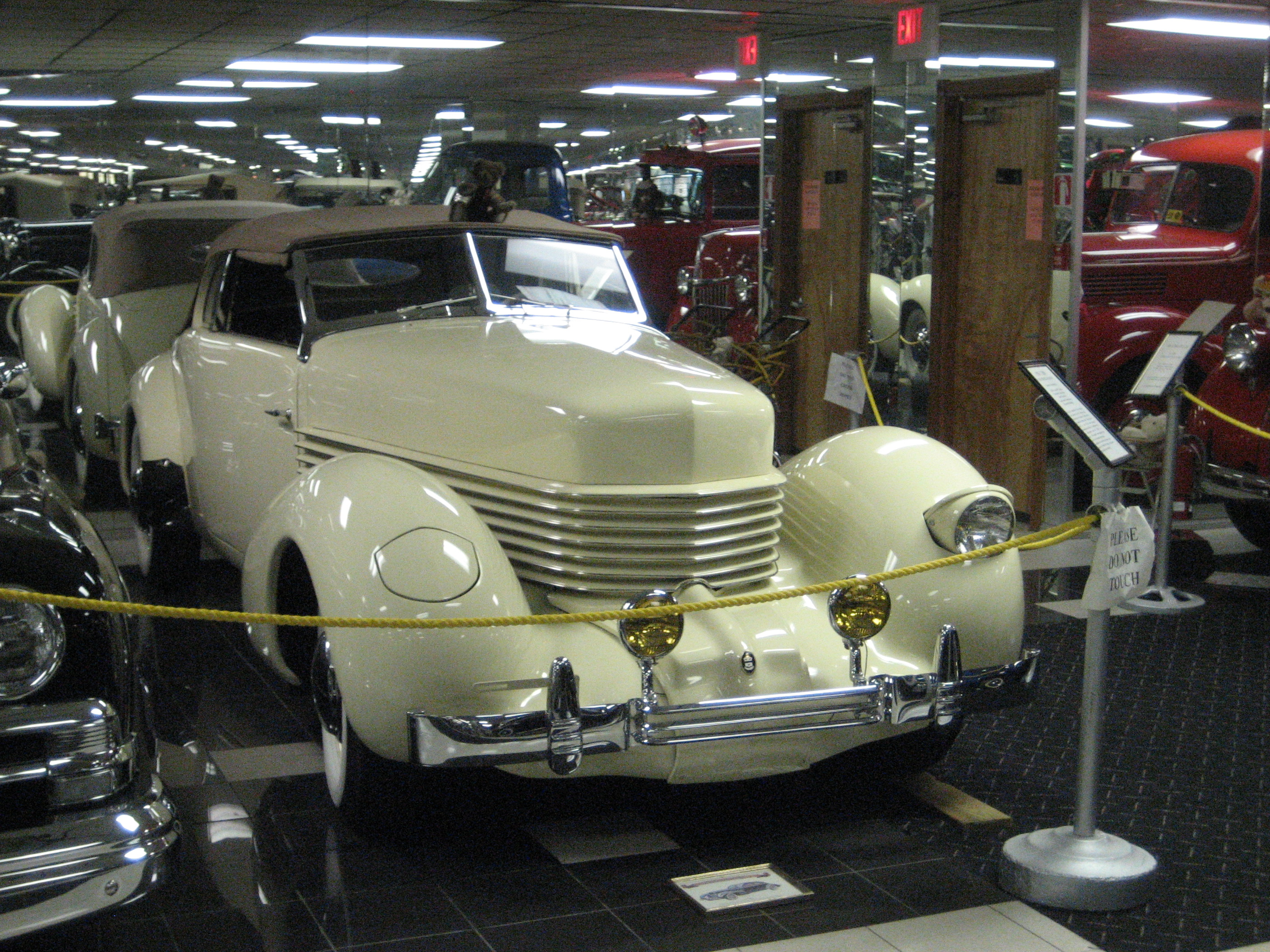 1936 Cord 810 Convertable Phaeton on display at Tallahassee Automobile Museum.